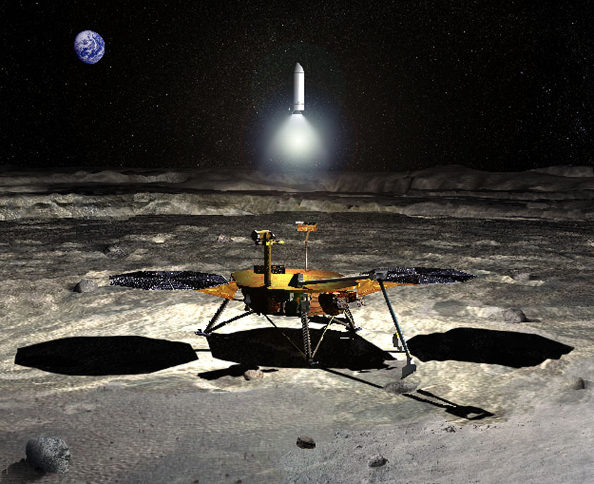 Possible configuration of the spacecraft - "South Pole-Aitken Basin Sample Return". This mission would use robotic technology to gather samples from the Moon's South Pole-Aitken Basin and return them to Earth for study. The Aitken Basin, a massive impact crater on the Moon's far side, may provide access to samples of the lunar mantle, which could give scientists insight into the period of heavy bombardment early in our solar system's history.